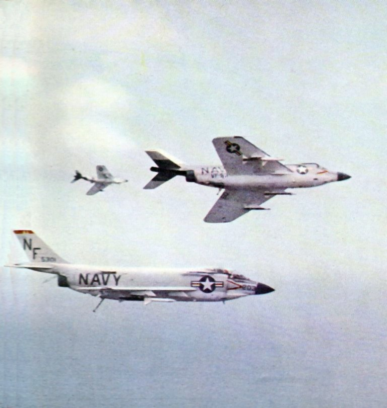 Three U.S. Navy McDonnell F3H-2 Demons of fighter squadron VF-53 Pukin Dogs in 1961. VF-53 was assigned to Carrier Air Group Five (CVG-5) aboard the aircraft carrier USS Ticonderoga (CVA-14) for a deployment to the Western Pacific from 10 May 1961 to 15 January 1962. On 20 June 1962 VF-53 was redesignated VF-143 Pukin Dogs.